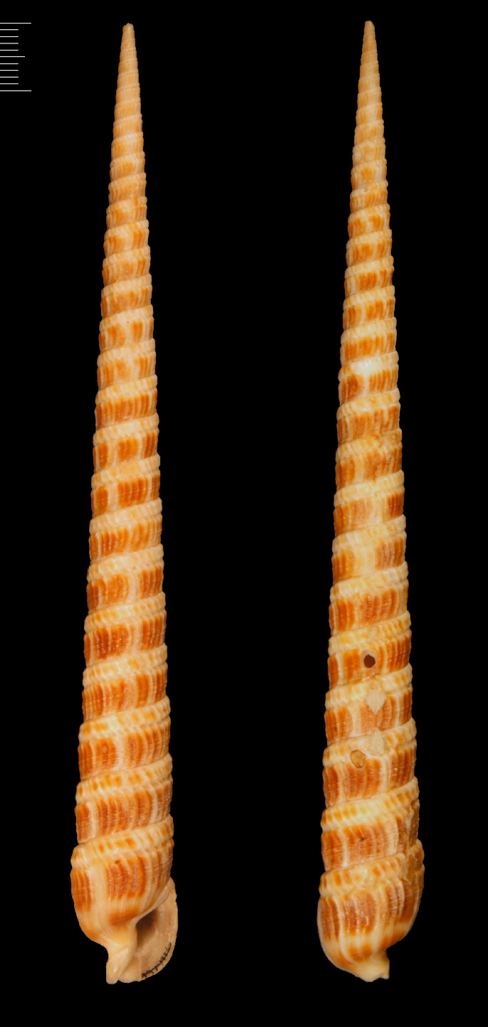 Holotype of Terebra pretiosa Reeve, 1842 = Cinguloterebra pretiosa (Reeve, 1842) .